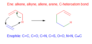 new fig 1